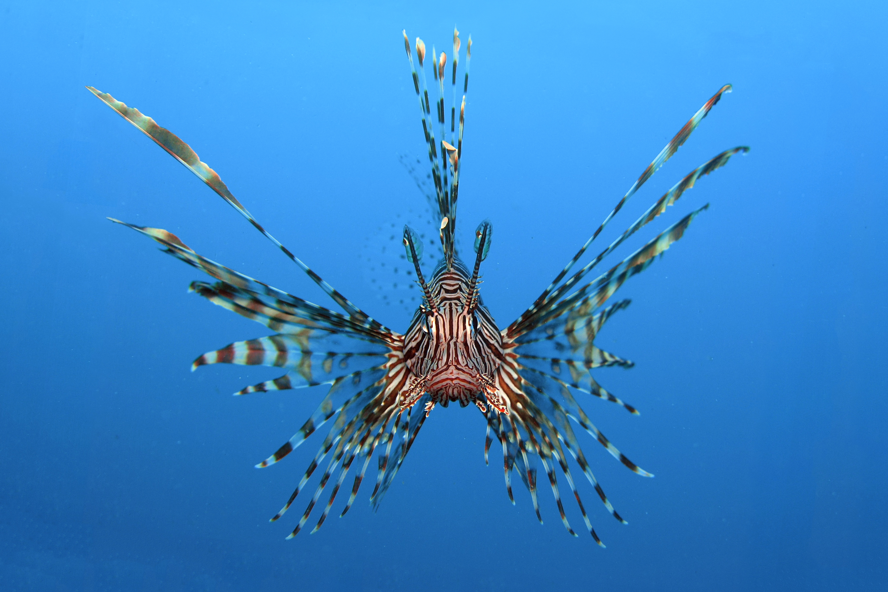 Pterois volitans, also known as red or common lionfish. Picture taken at Tasik Ria, Manadao, Indonesia.